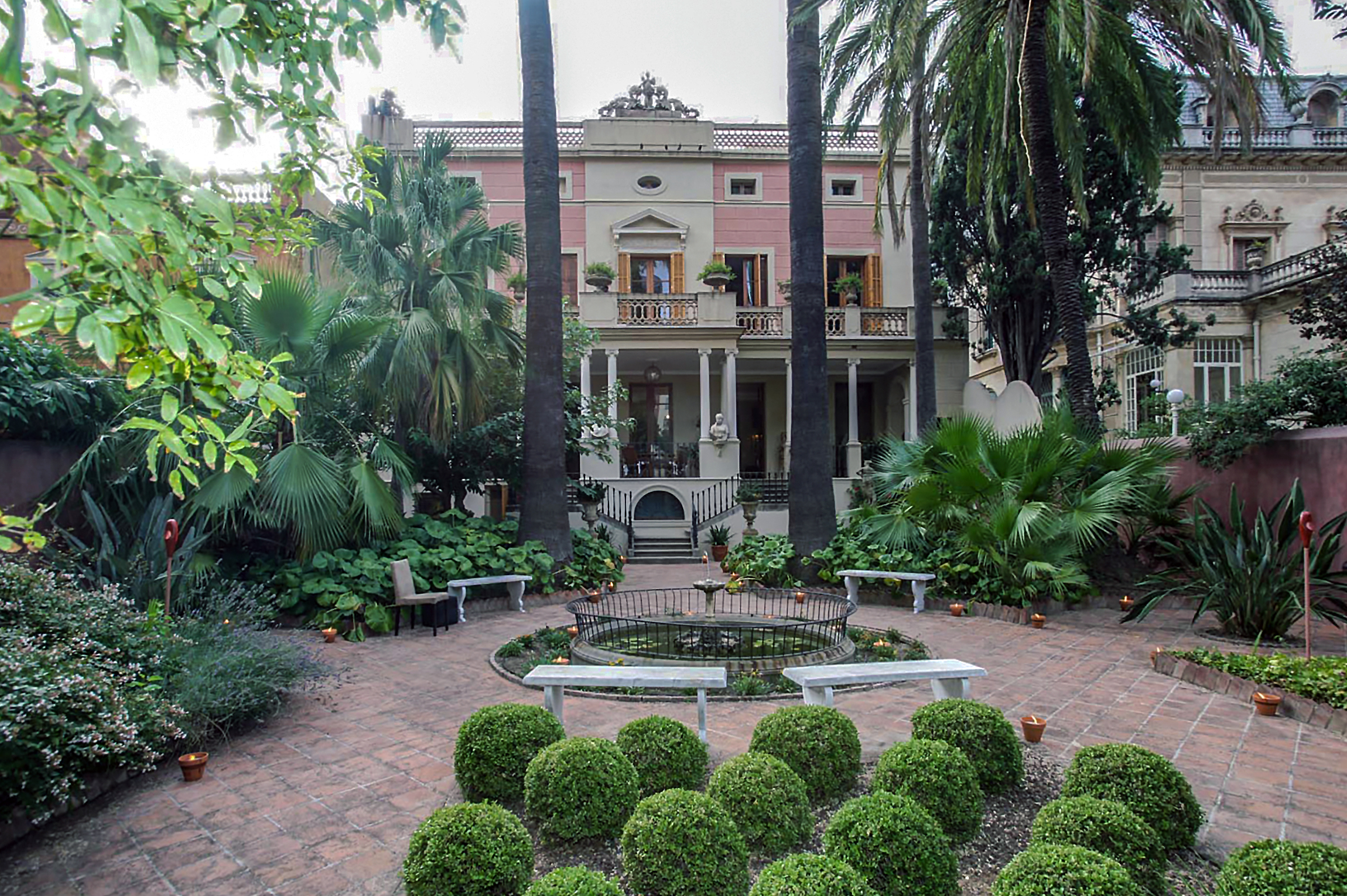 Fundació Cultural Privada Rocamora, Carrer de Ballester, Barcelona, Spain